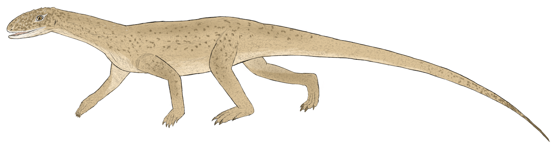 A life restoration of Teleocrater rhadinus, a species of basal avemetatarsalian (bird-line archosaur) from the MiddleTriassic of Tanzania